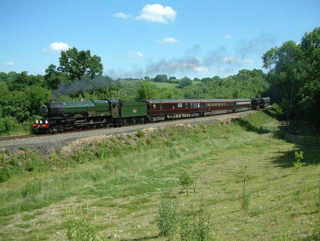 6024 King Edward I hauls the Royal Train at Highley on the Severn Valley Railway